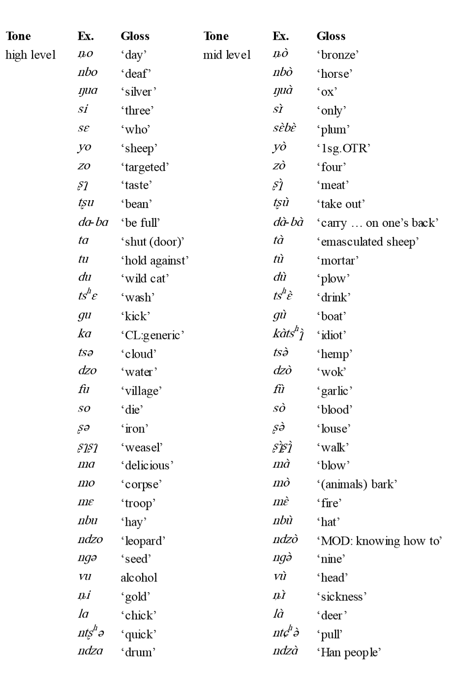 a comparison of minimal pairs for tonal effect on semantic meaning